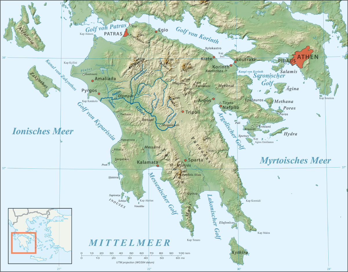 Alfios river system, Greece